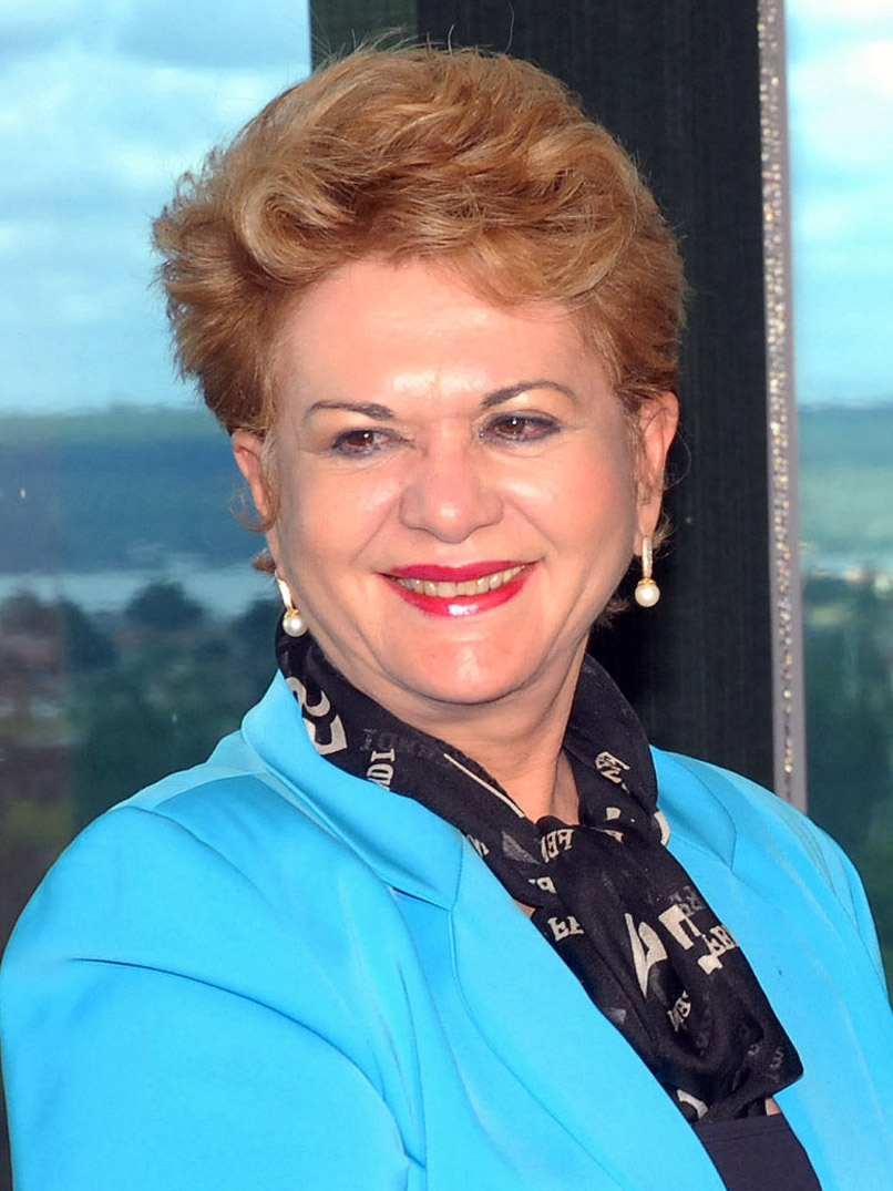 Wilma Faria, newly elected governor of the Brazilian state of Rio Grande do Norte.